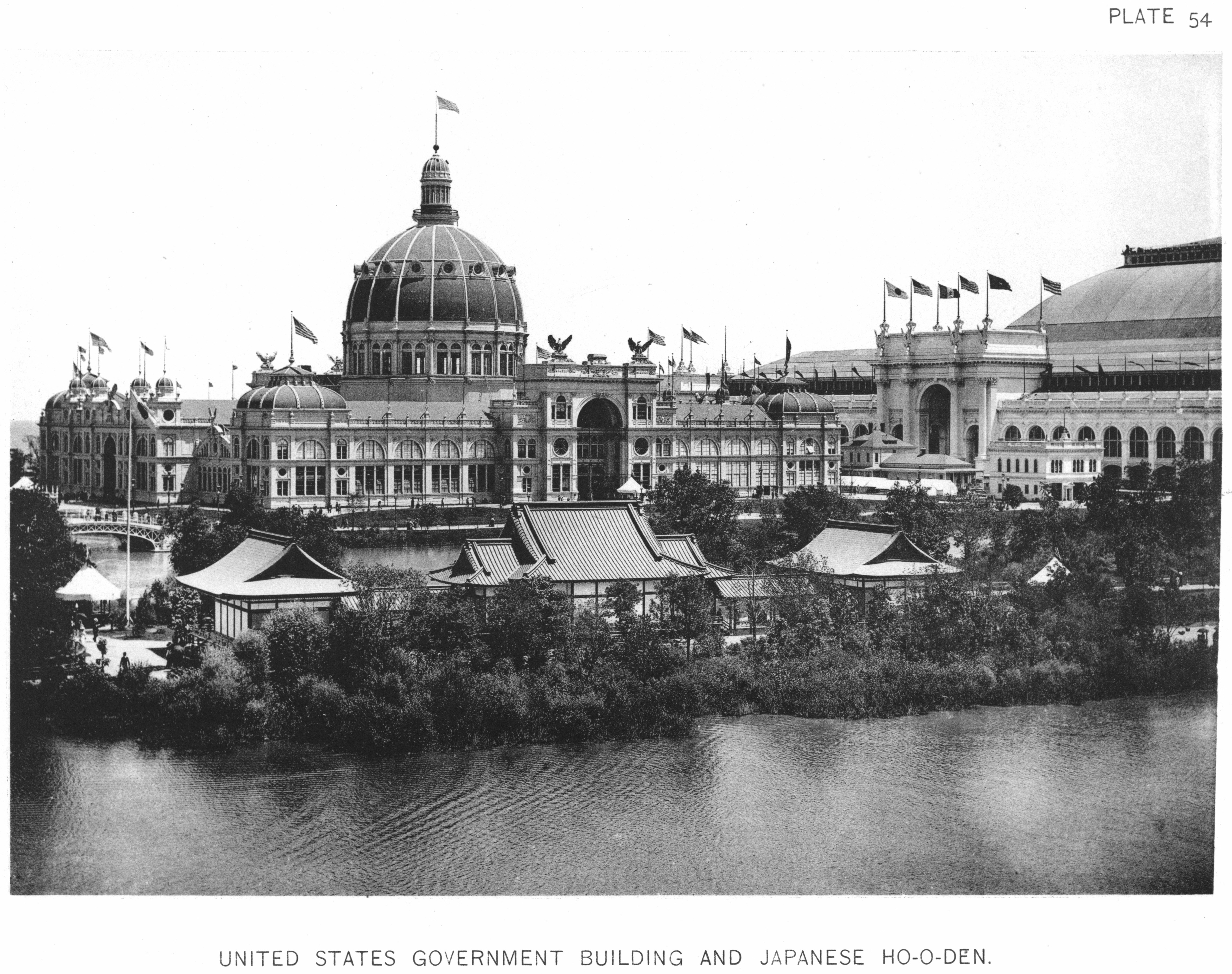 Official Views Of The World's Columbian Exposition: United States Government Building And Japanese Ho-O-Den